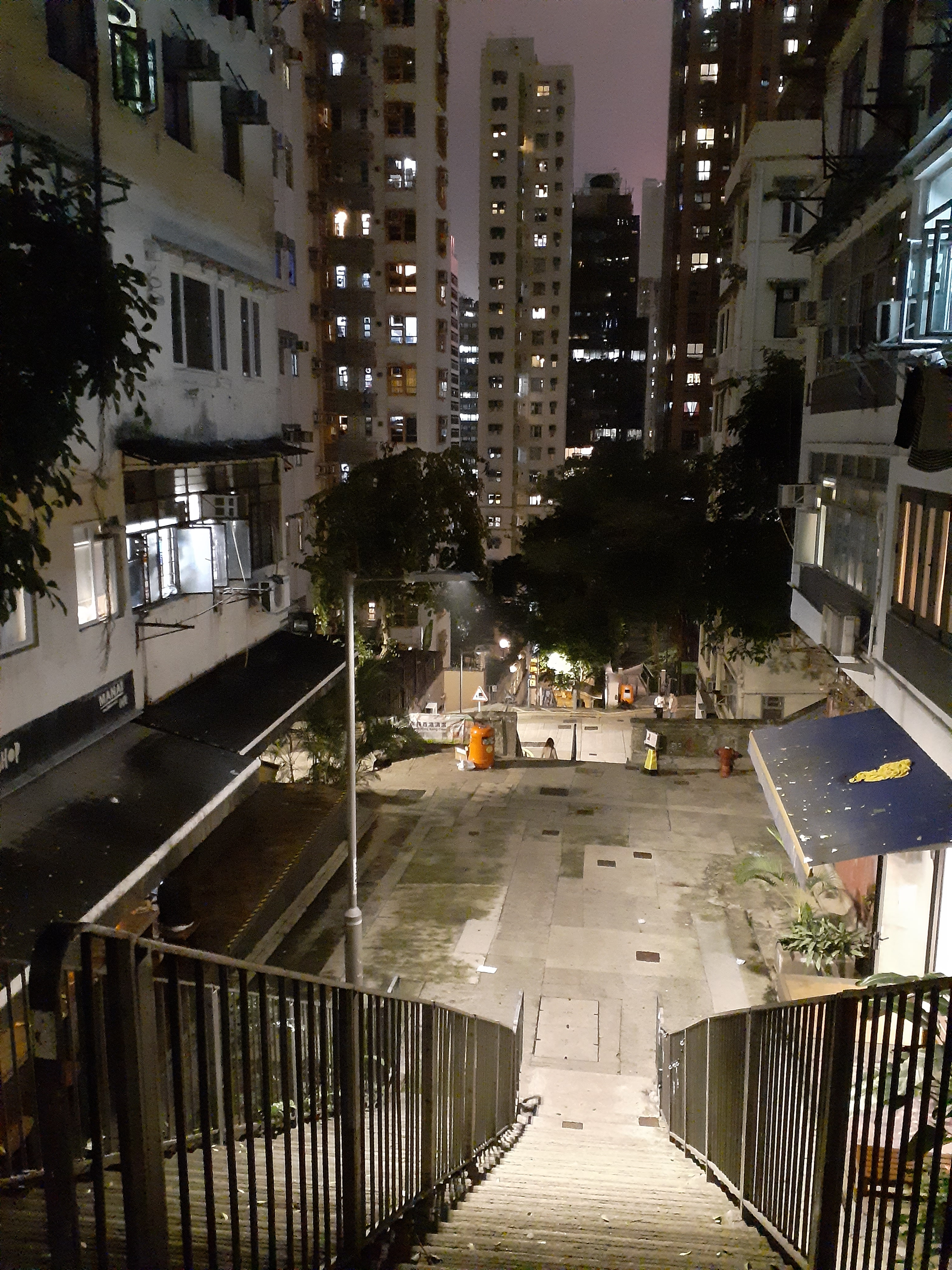 HK SW 上環 Sheung Wan 磅巷 Pound Lane night in April 2020